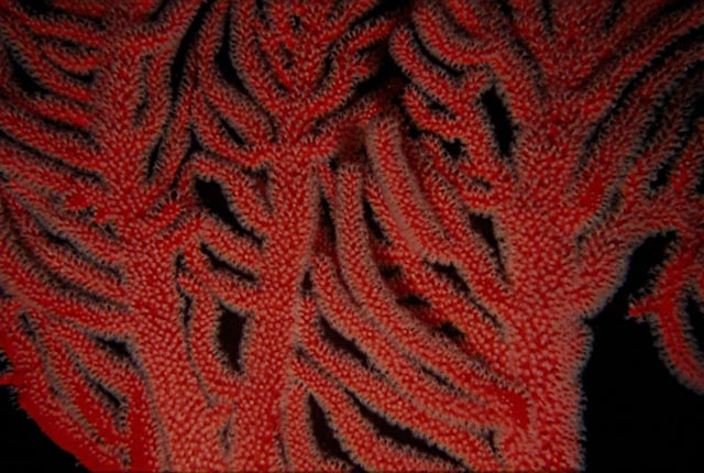 A photograph of a feeding palmate sea fan, Leptogoria palma, taken in 20m of water in False Bay Cape Town using a Nikonos V camera